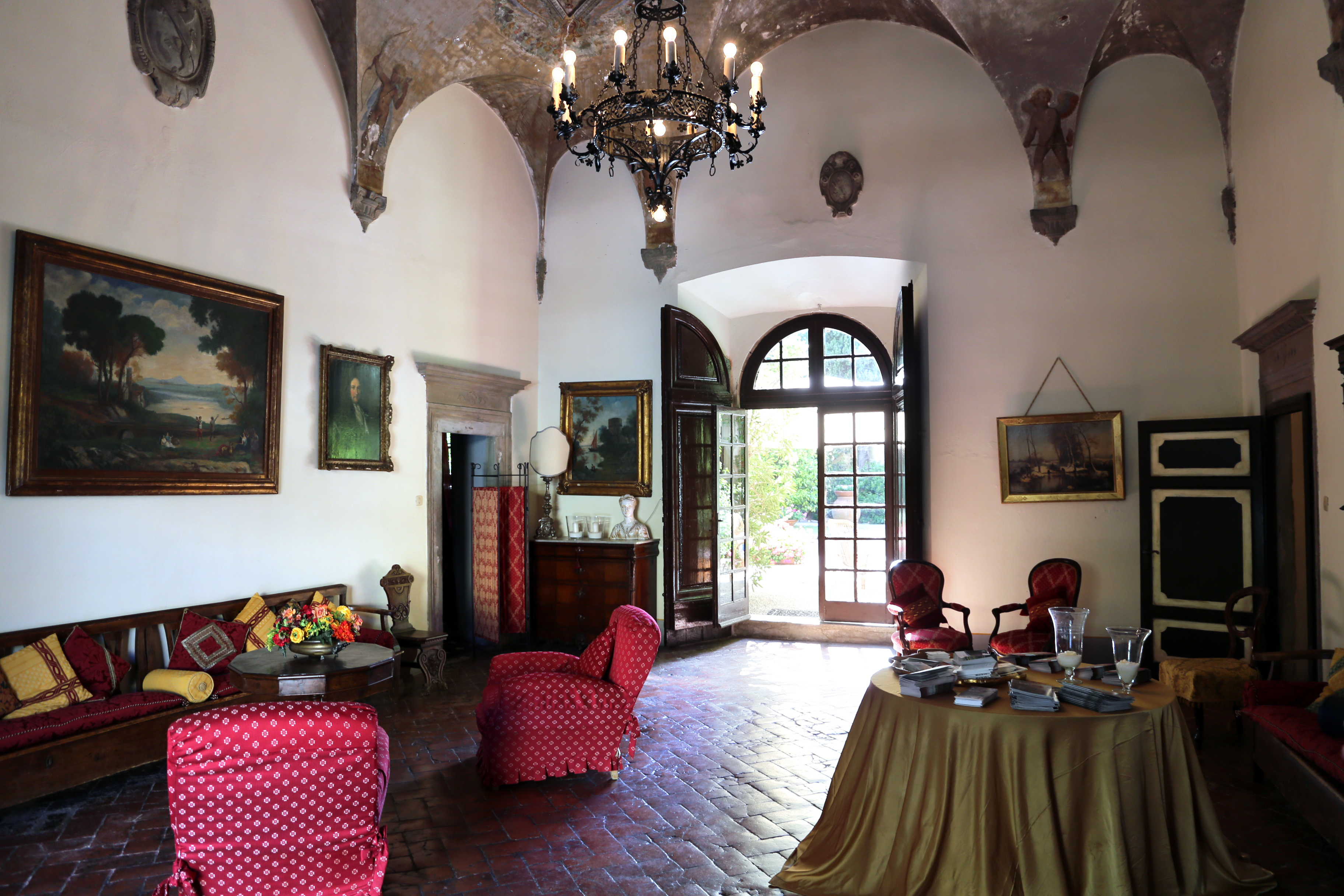 Villa Rita (Vicopisano)